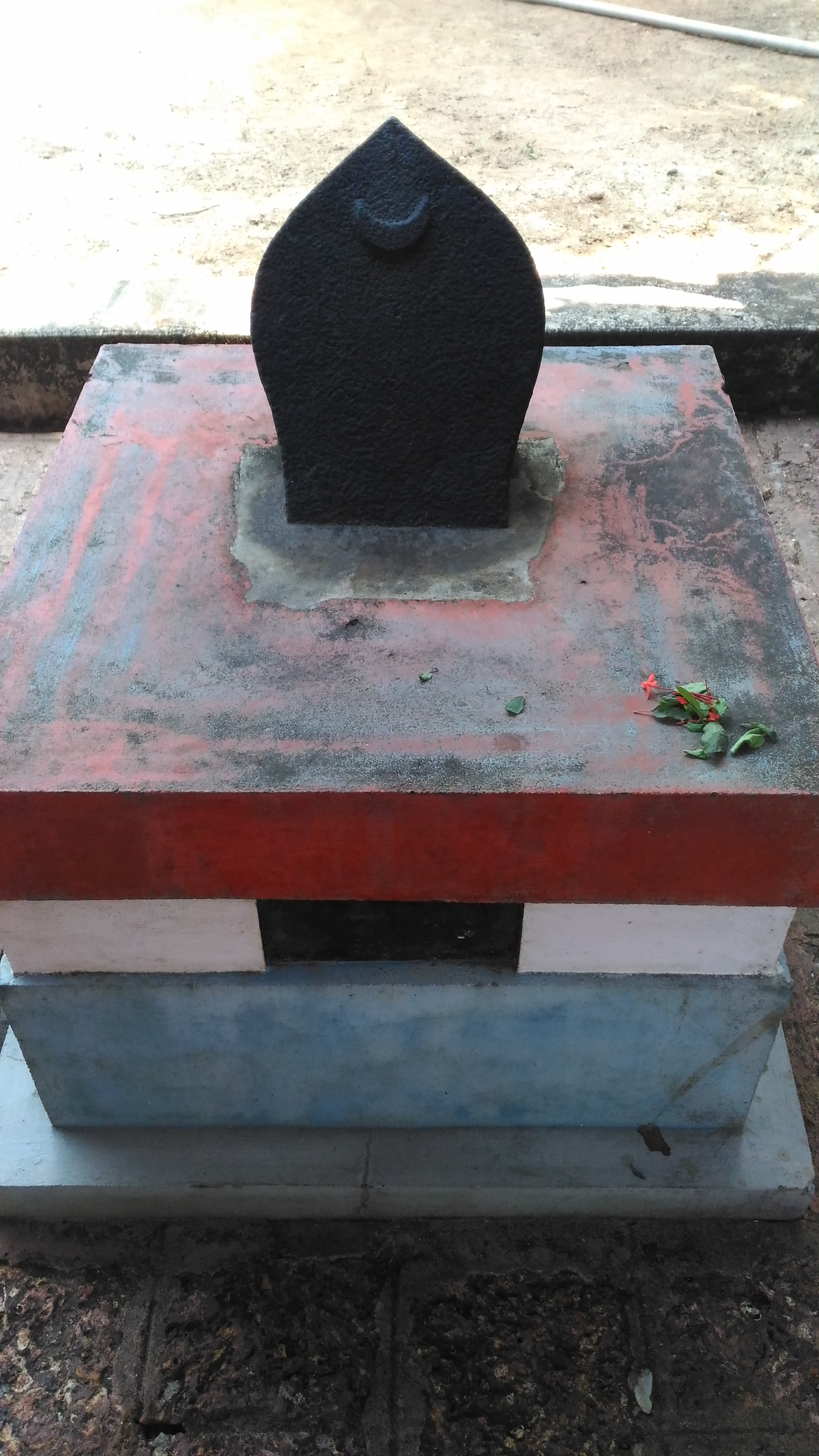 "Thengakallu"-A stone structure at kavu for domolishing coconut